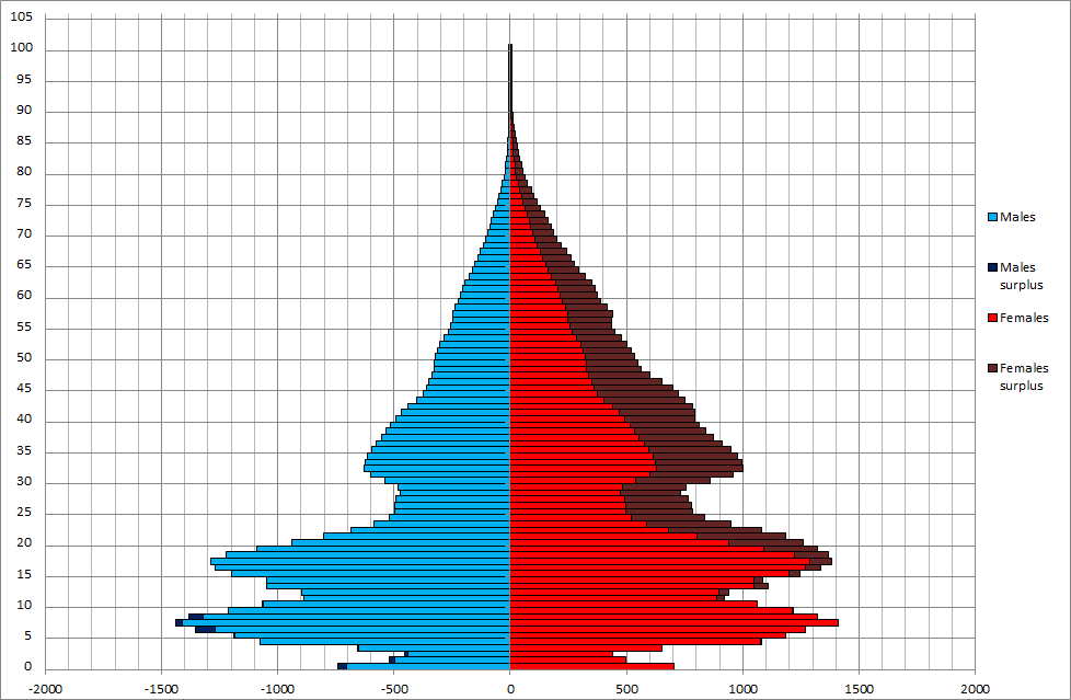 Russian population by age and sex (demographic pyramid) as of 01 January 1946